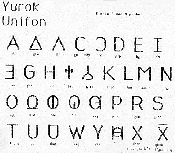 Unifon alphabet - adaptation to Yurok language